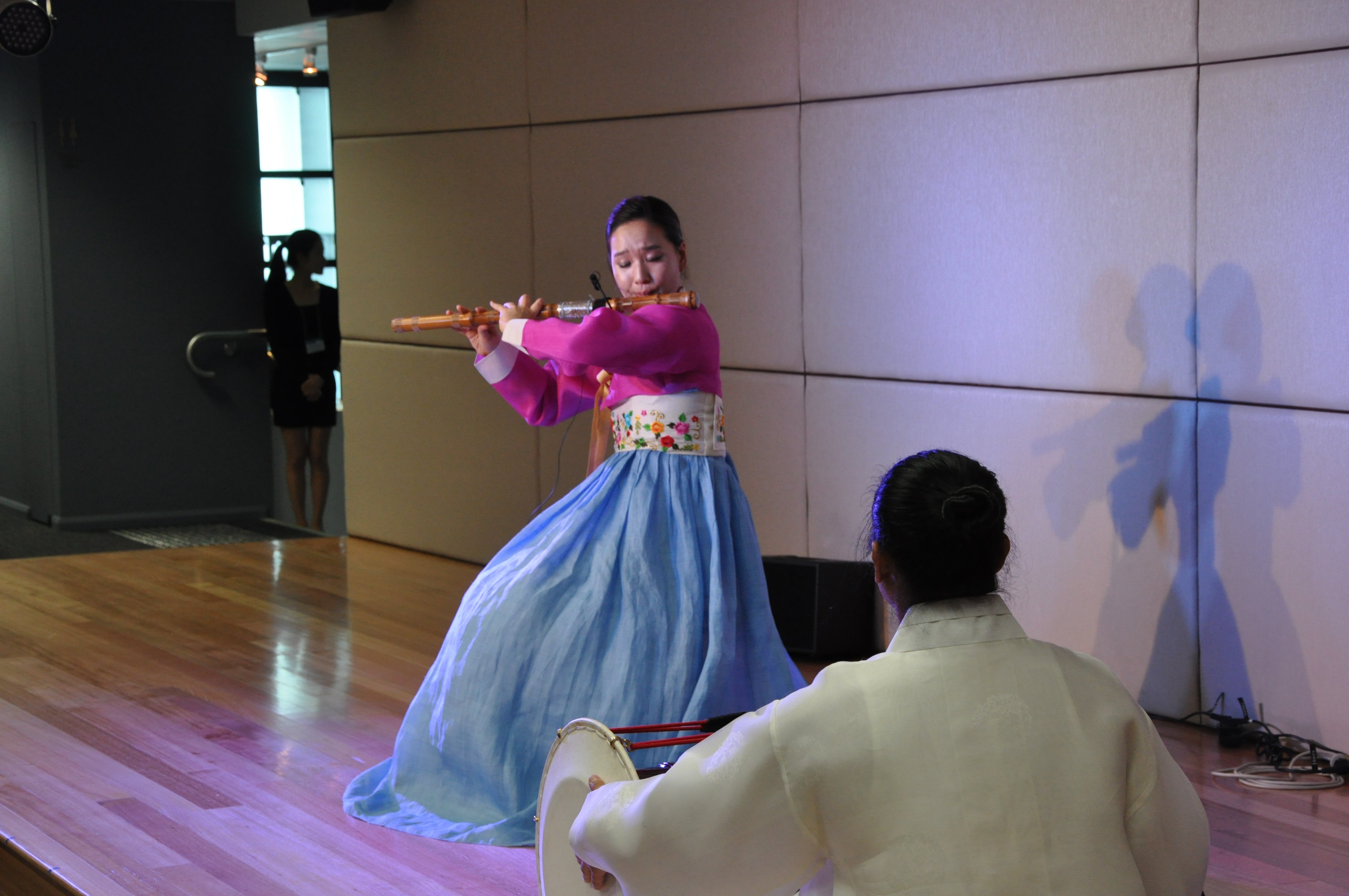 A new Korean Cultural Center opened on April 4 in Sydney to mark the 50 anniversary of the establishment of diplomatic relationship between Korea and Australia.